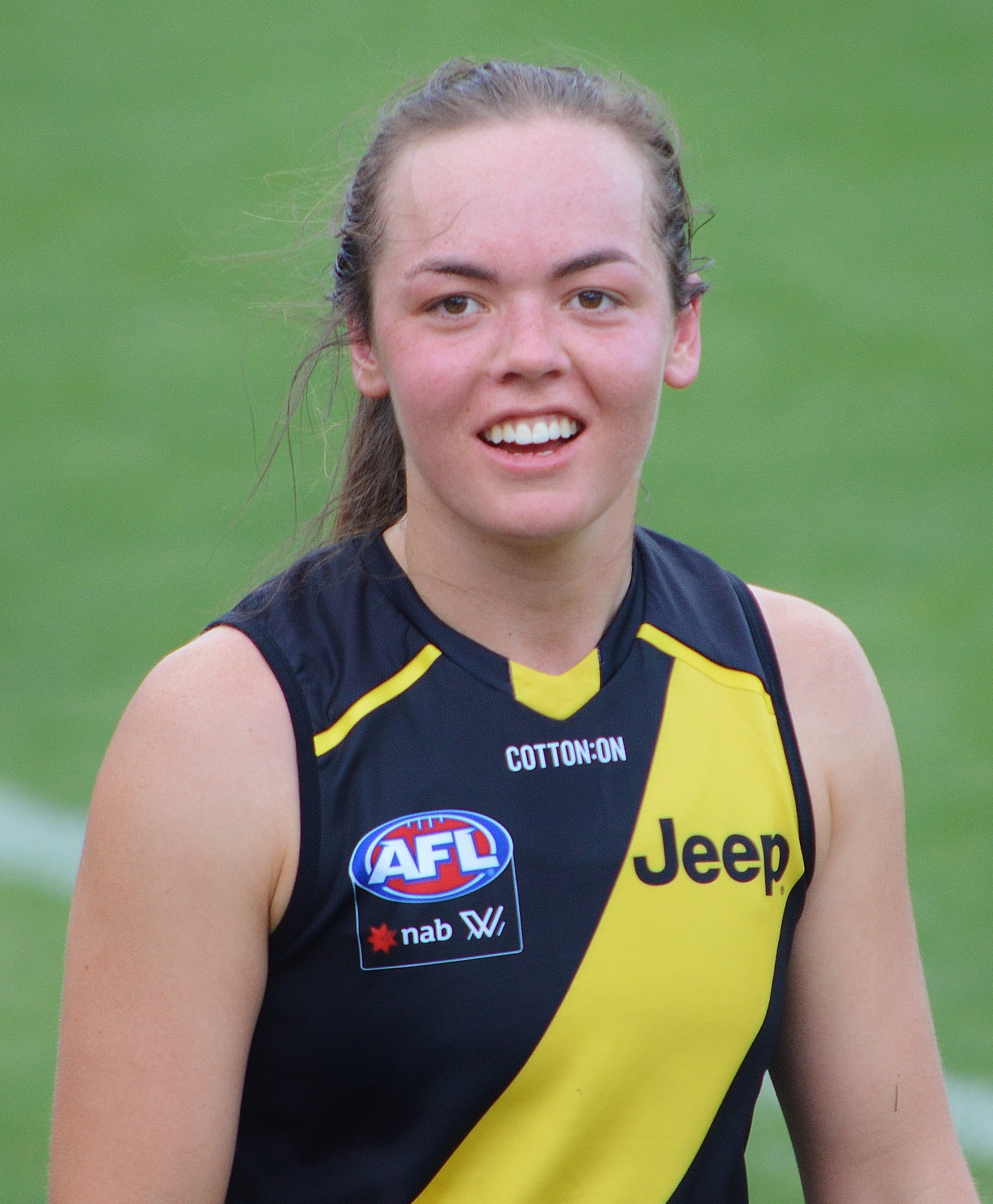 Hannah Burchell with Richmond during the round 3, 2020 AFL Women's match against North Melbourne at Ikon Park.